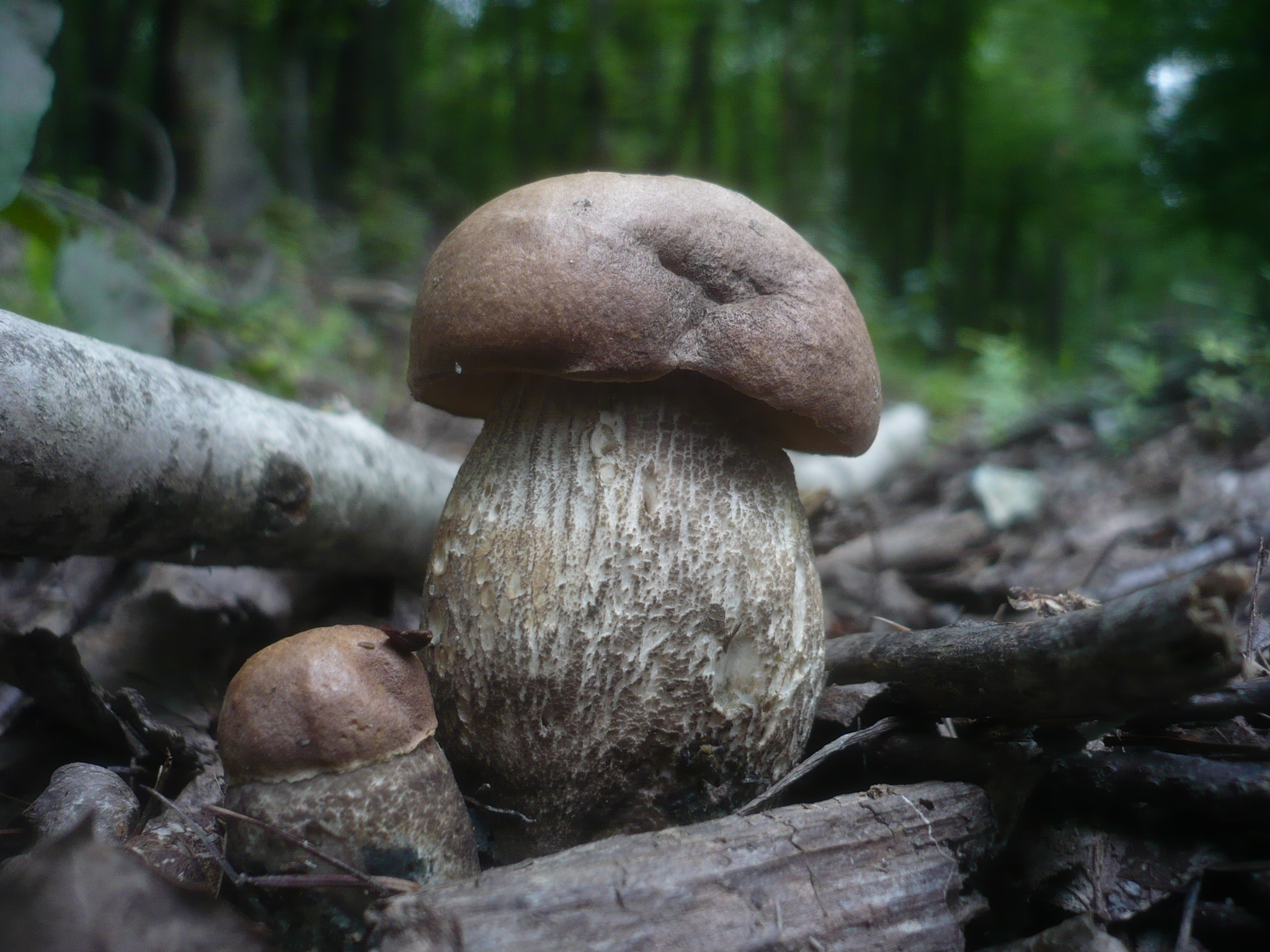 Fruit bodies of the bolete mushroom Leccinum duriusculum (Schulzer ex Kalchbr.) Singer. Photographed in Föhrenriegel, Mannersdorf an der Rabnitz, Bezirk Oberpullendorf, Burgenland, Austria.